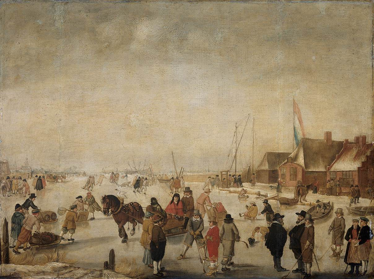 Amusement on the ice outside the walls of a city. In the front a group of men are playing kolf. In the middle a horse-sleigh and ice skaters can be seen.